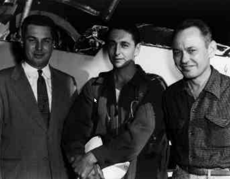 Left to right: Walt Williams, Scott Crossfield and Joe Vensel in front of D-558-2 Skyrocket on November 20, 1953, the day Crossfield first flew faster than Mach 2 on that very aircraft. NASA photo E-1097.